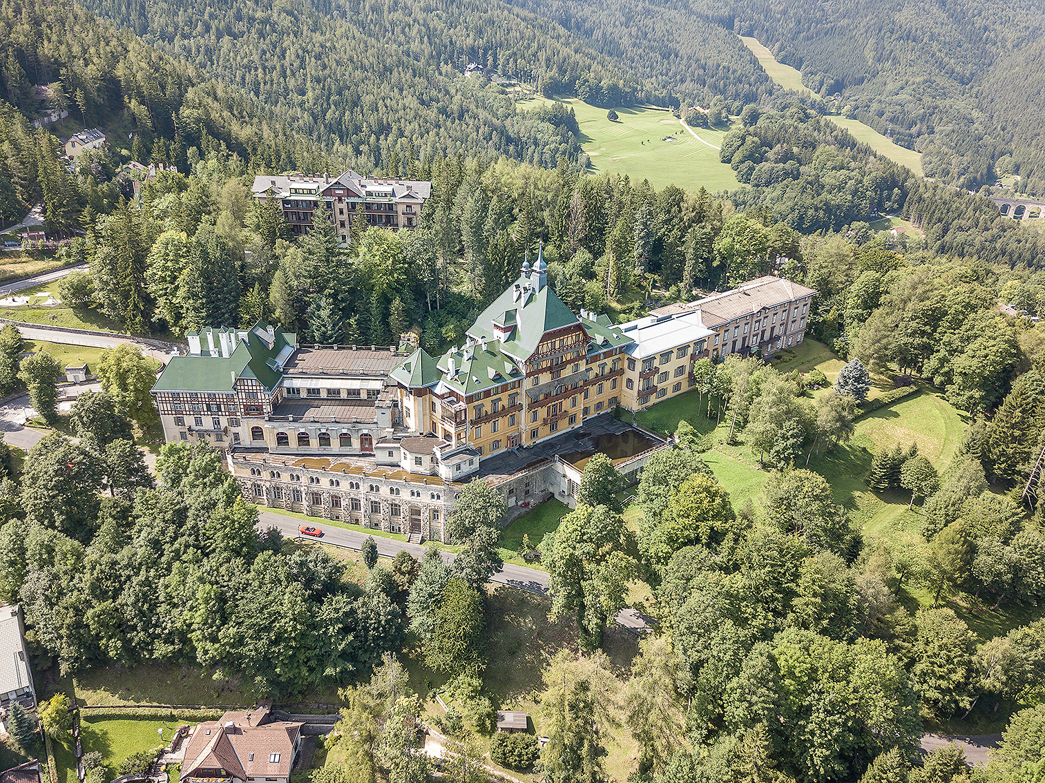 Südbahnhotel